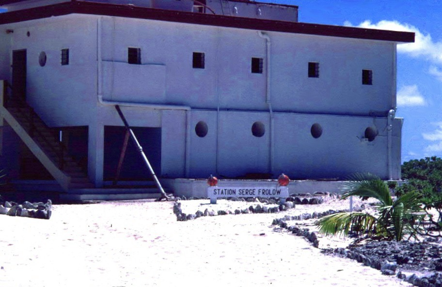 Tromelin weather station, Indian Ocean.